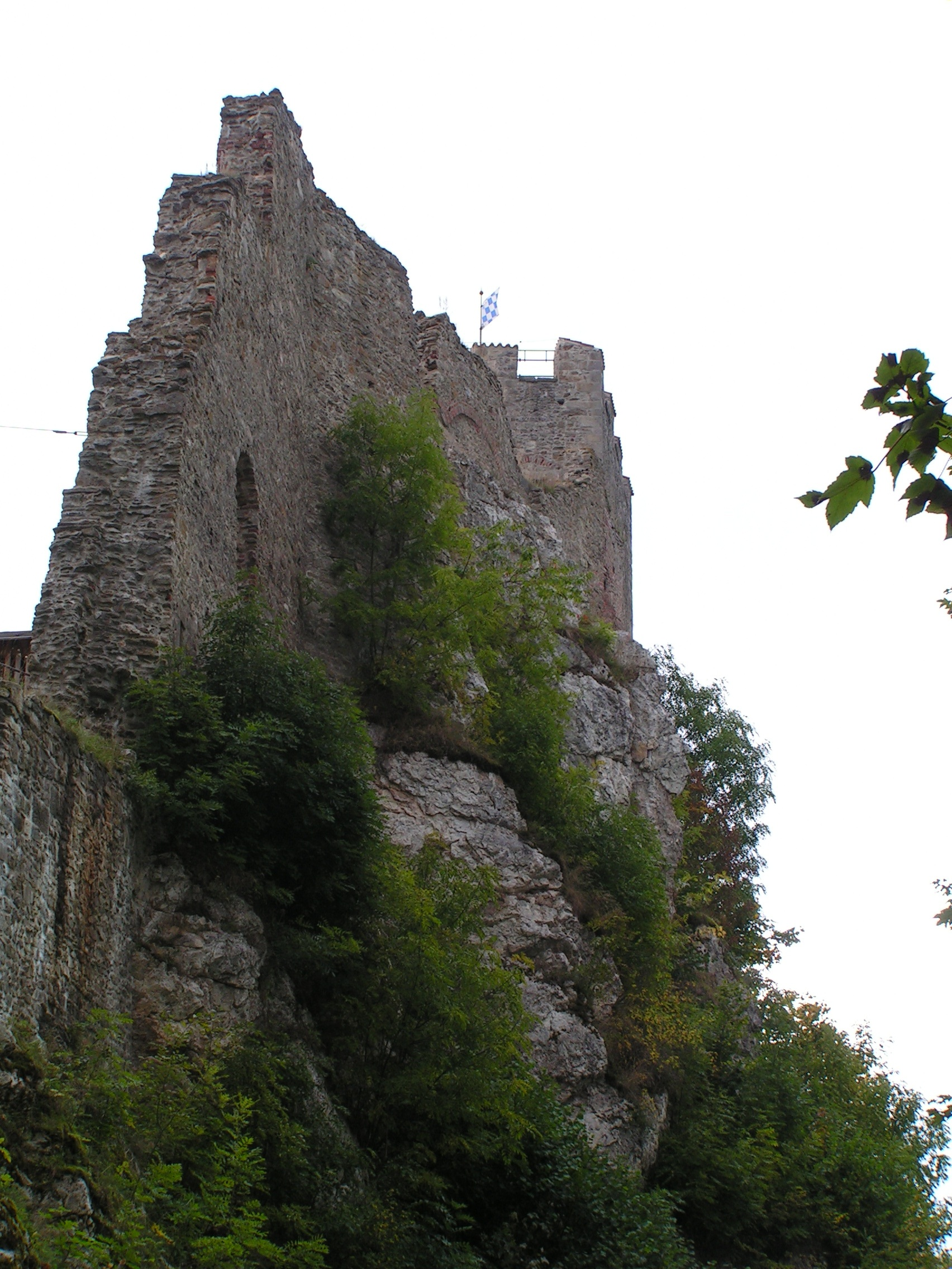 a former castle wall